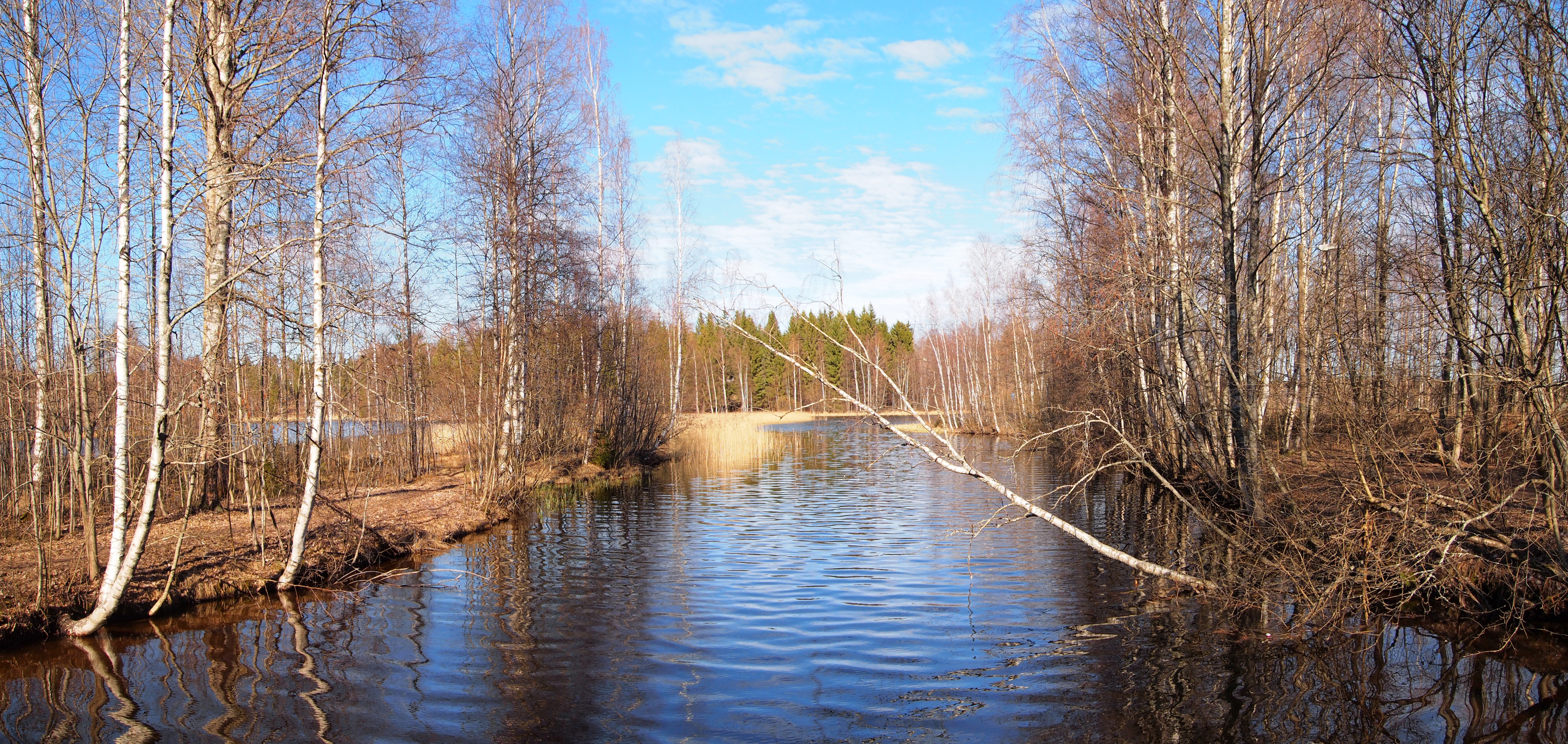 Muuramenjoki river, Muurame. This photograph was taken with an Olympus E-PL1